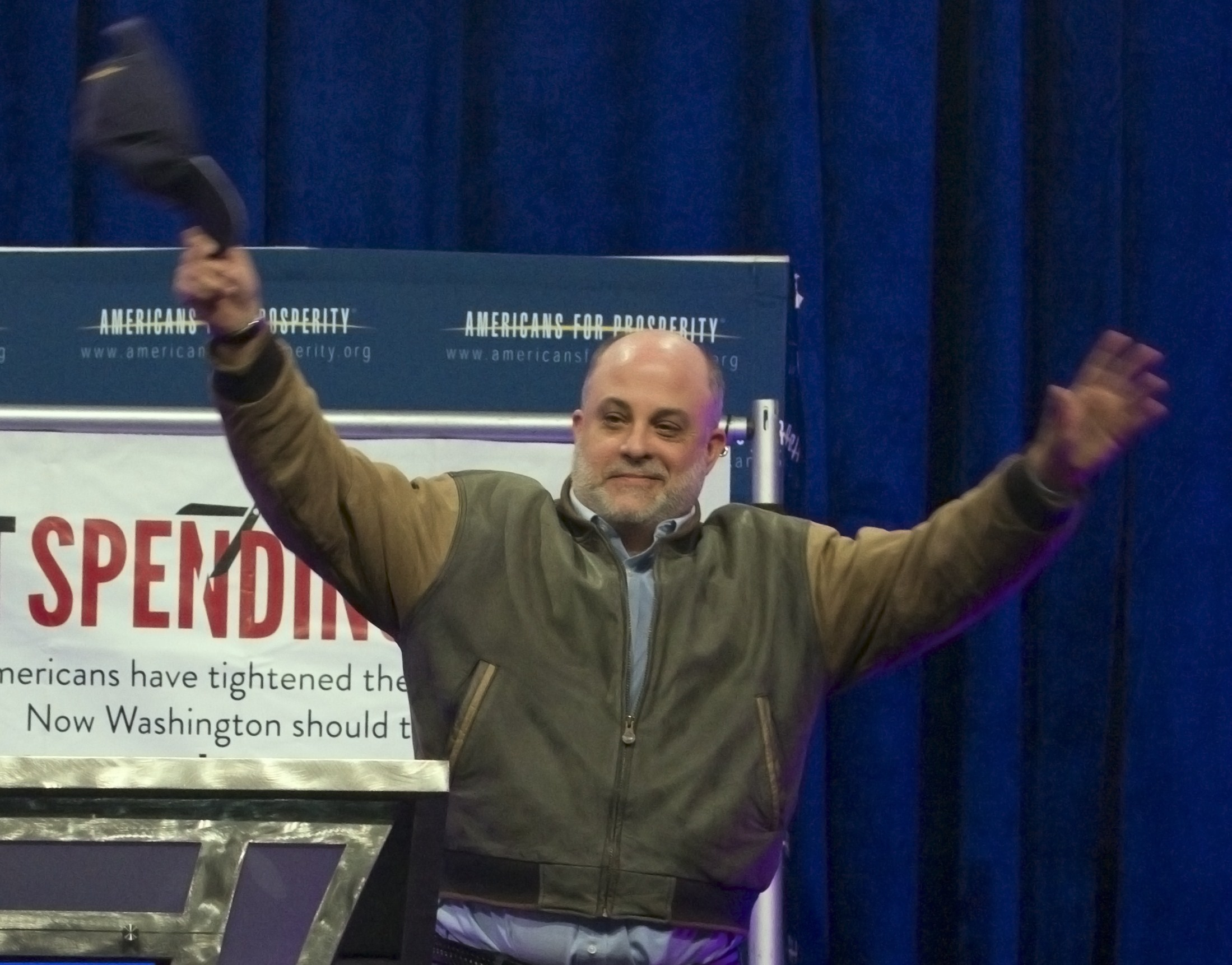 Mark Levin at the Americans for Prosperity Defending the American Dream Conference. Photos taken at the Americans for Prosperity Defending the American Dream Conference on November 4 and 4 2011.